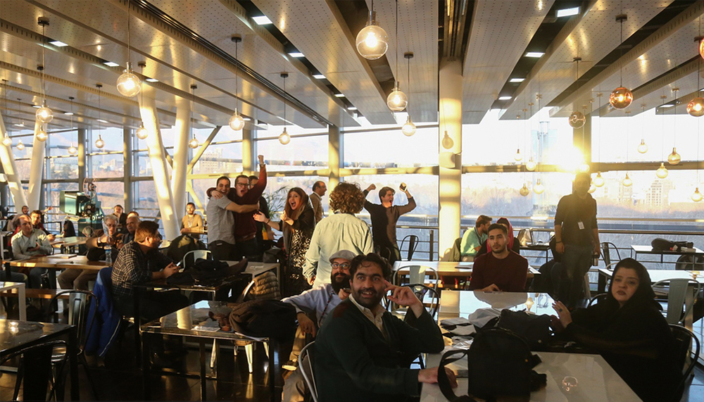 Spectators (film critics and journalists) watching Persepolis vs Esteghlal football match at Mellat cineplex at the 38th edition of the Fajr Film Festival at Mellat cineplex